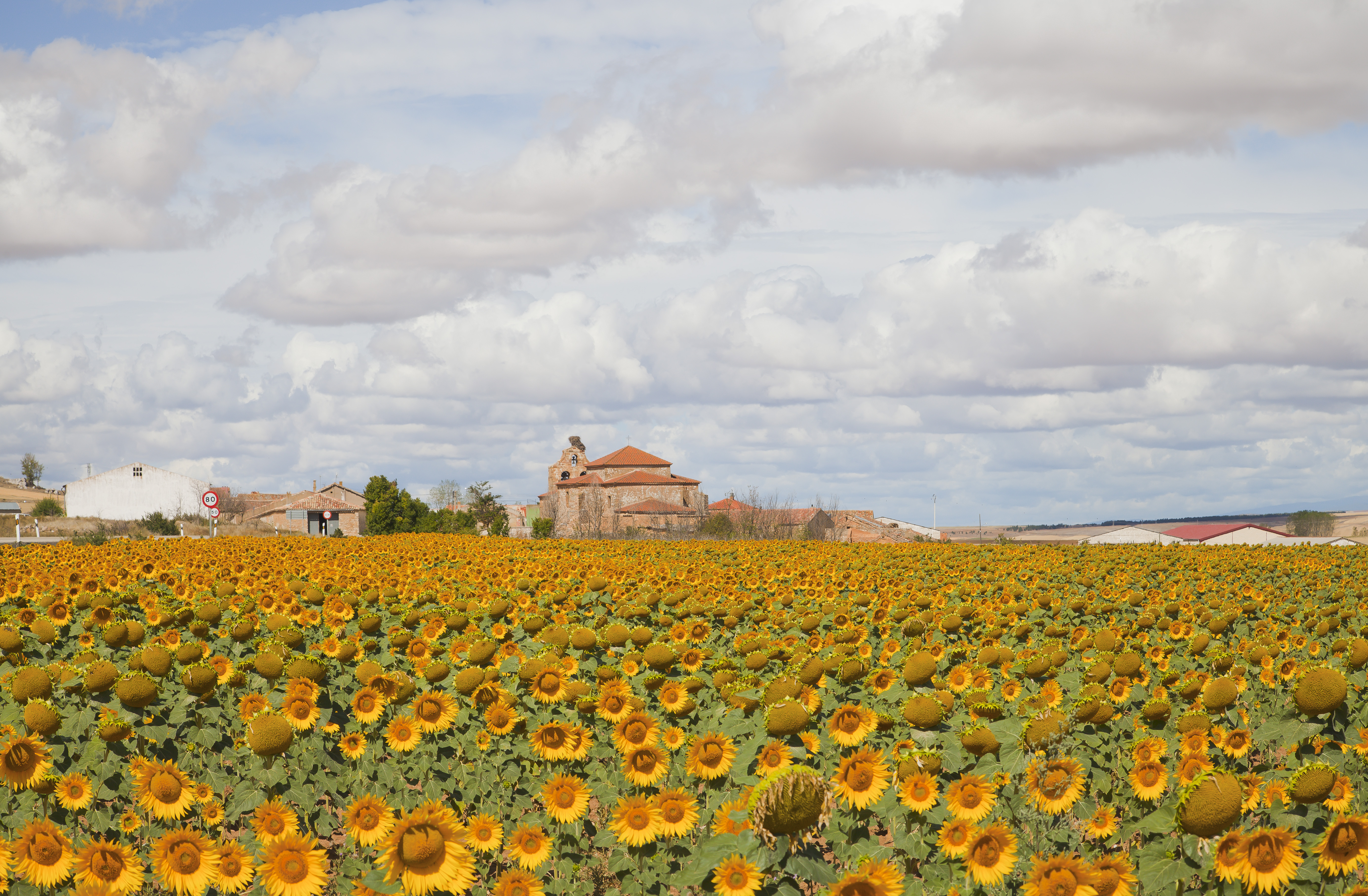 Church of Nuestra Señora de La Blanca, Cardejón, Spain